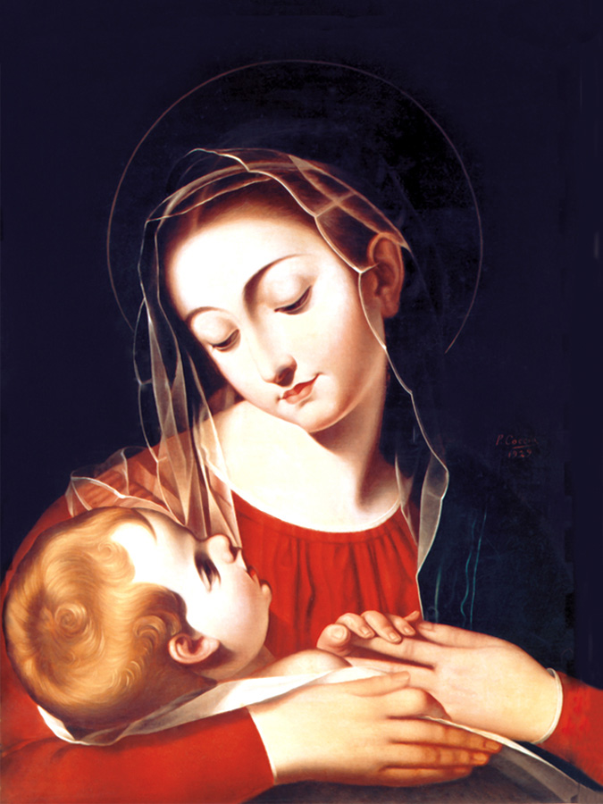 "Mater Divinae Providentiae," by the Italian painter Scipione Pulzone around 1580. This painting inspired the Roman Catholic devotion to Our Lady of Providence.